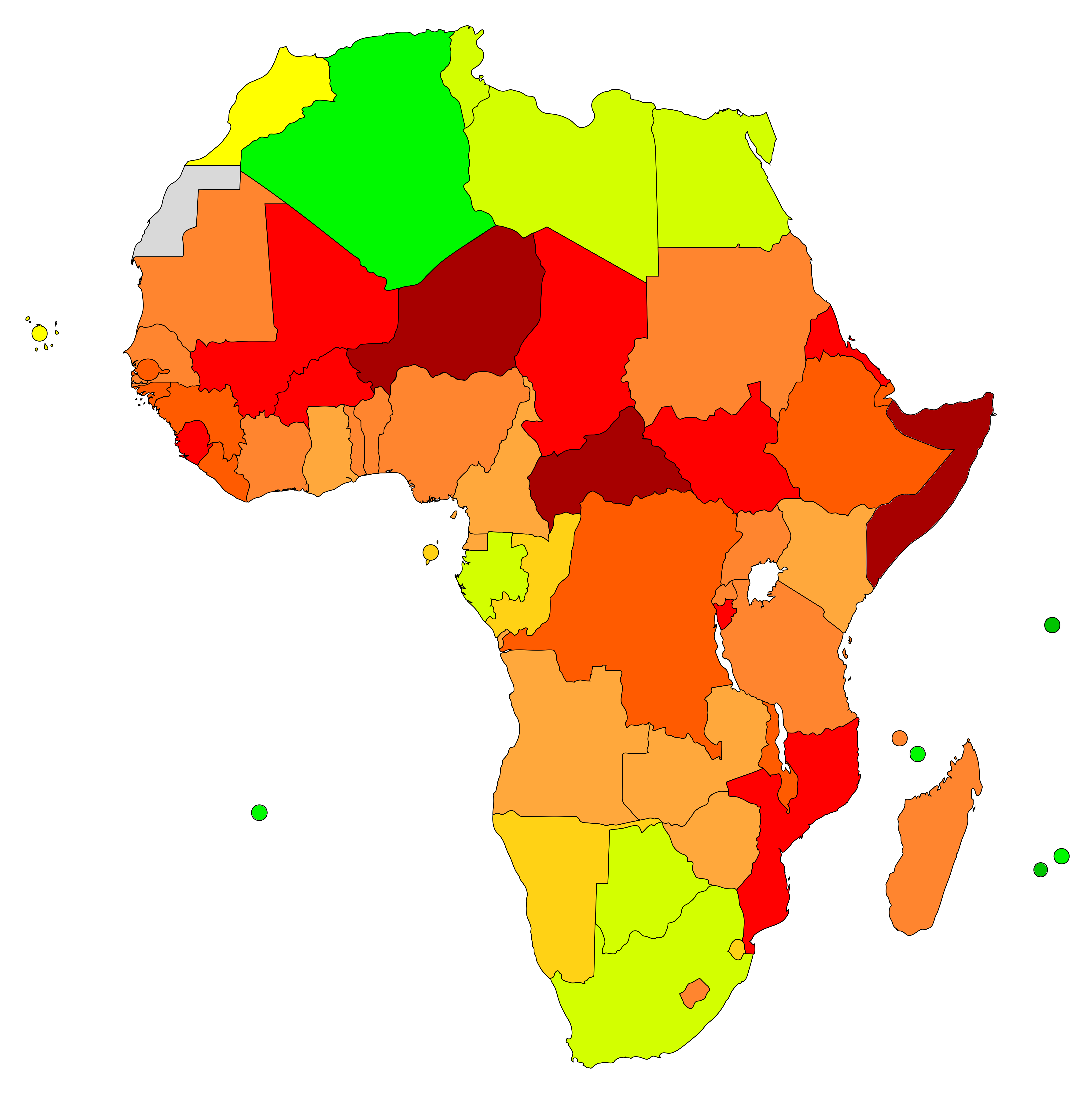 A choropleth map showing African countries by Human Development Index, based on 2018 data from the 2019 Human Development Report. 0.800–0.849 0.750–0.799 0.700–0.749 0.650–0.699 0.600–0.649 0.550–0.599 0.500–0.549 0.450–0.499 0.400–0.449 ≤ 0.399 Data unavailable